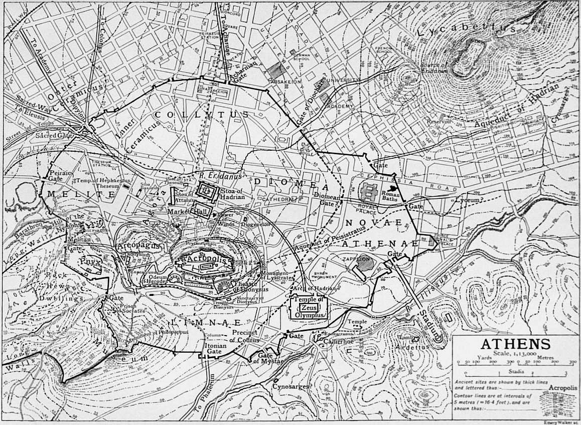 Old map of Athens.Illustration from 1911 Encyclopædia Britannica, article Athens.